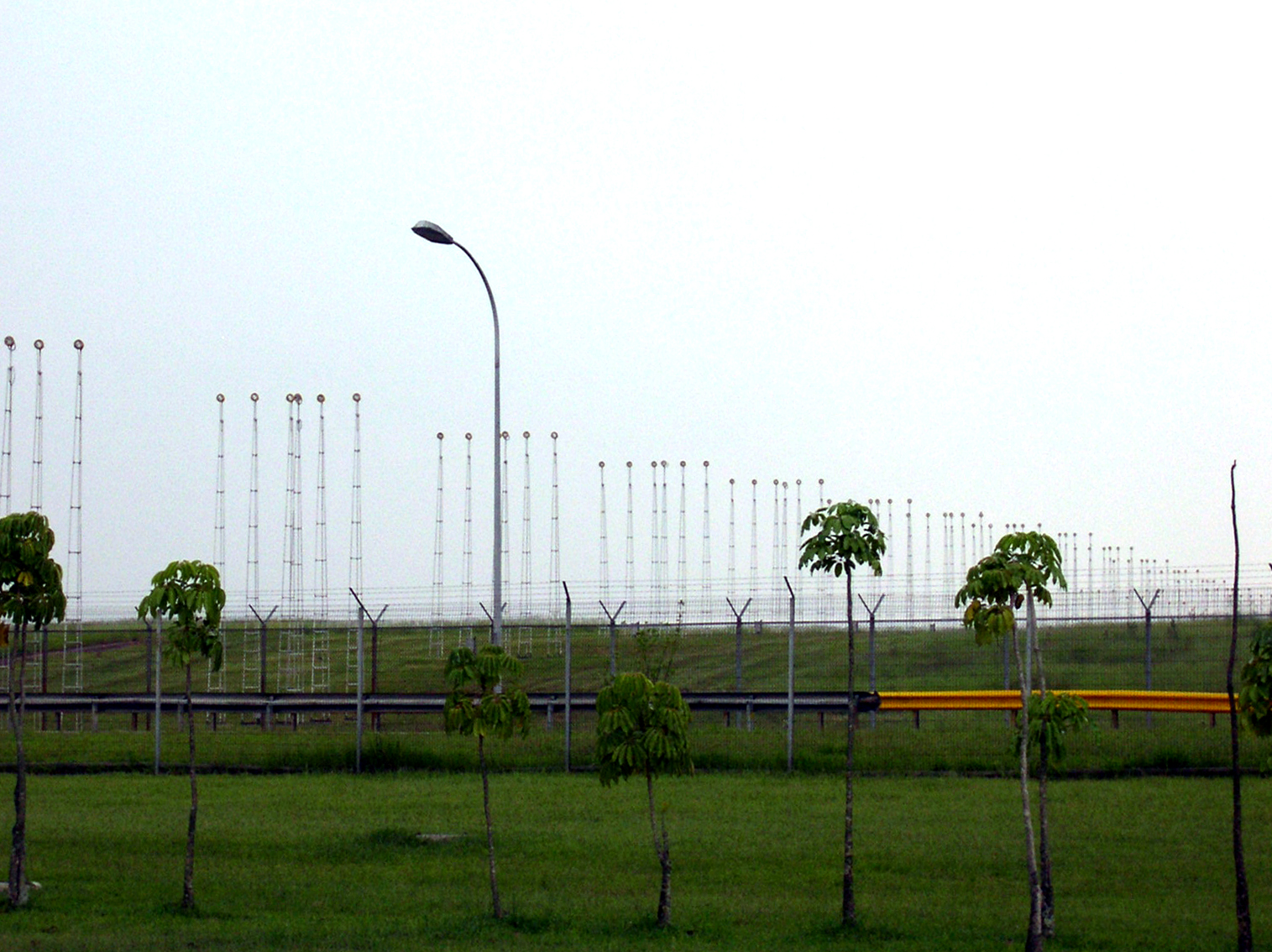 Approach Lighting System Category 2 of São Paulo/Guarulhos International Airport